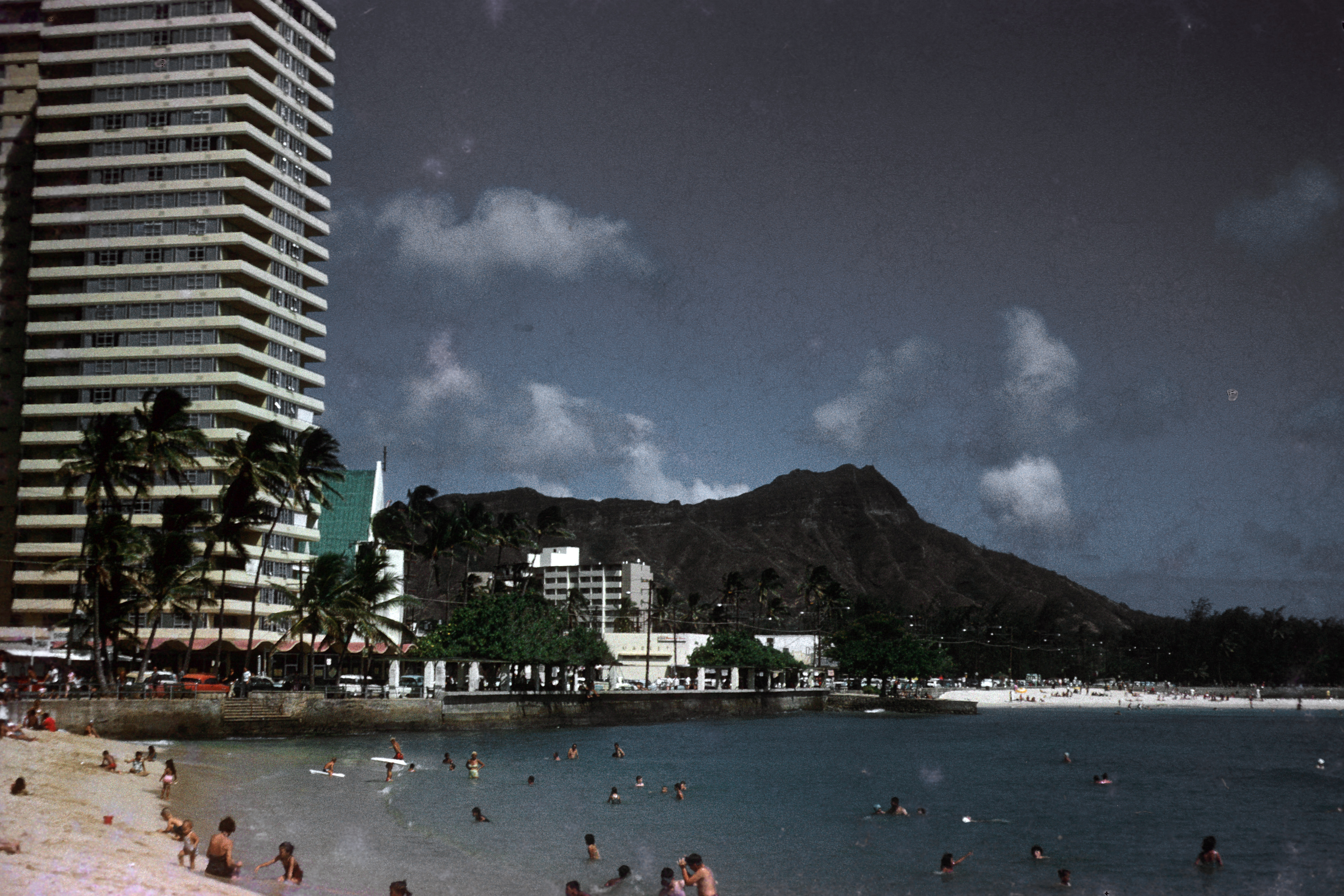 My father took this photo of Waikiki Beach in June of 1963, the tall building and the church with the green roof still exist. The Church is Saint Augustine Catholic Church.